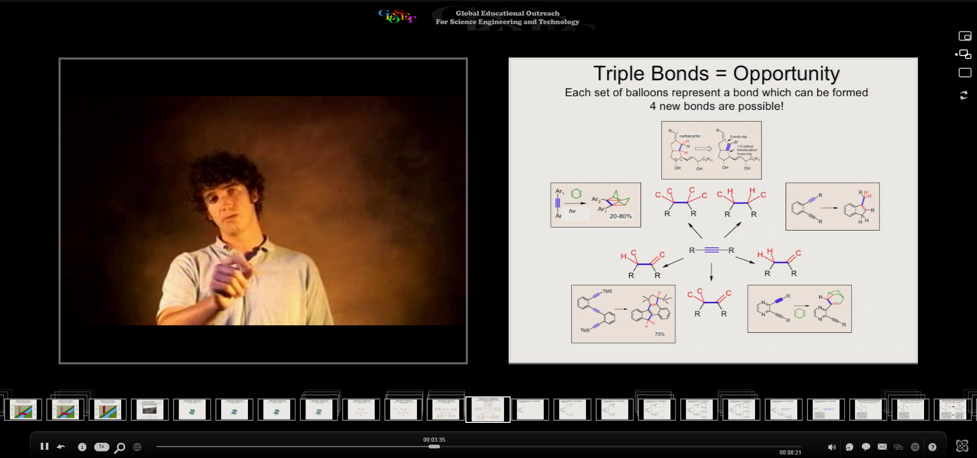 GEOSET recording screenshot